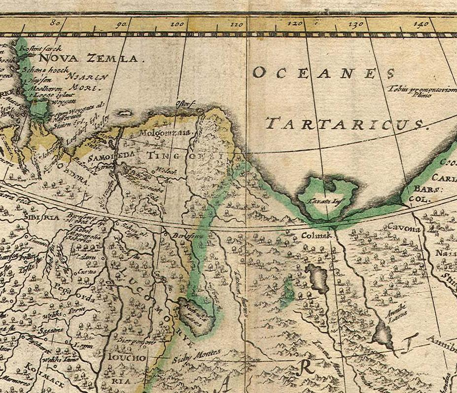 A fragment of the map of Asia